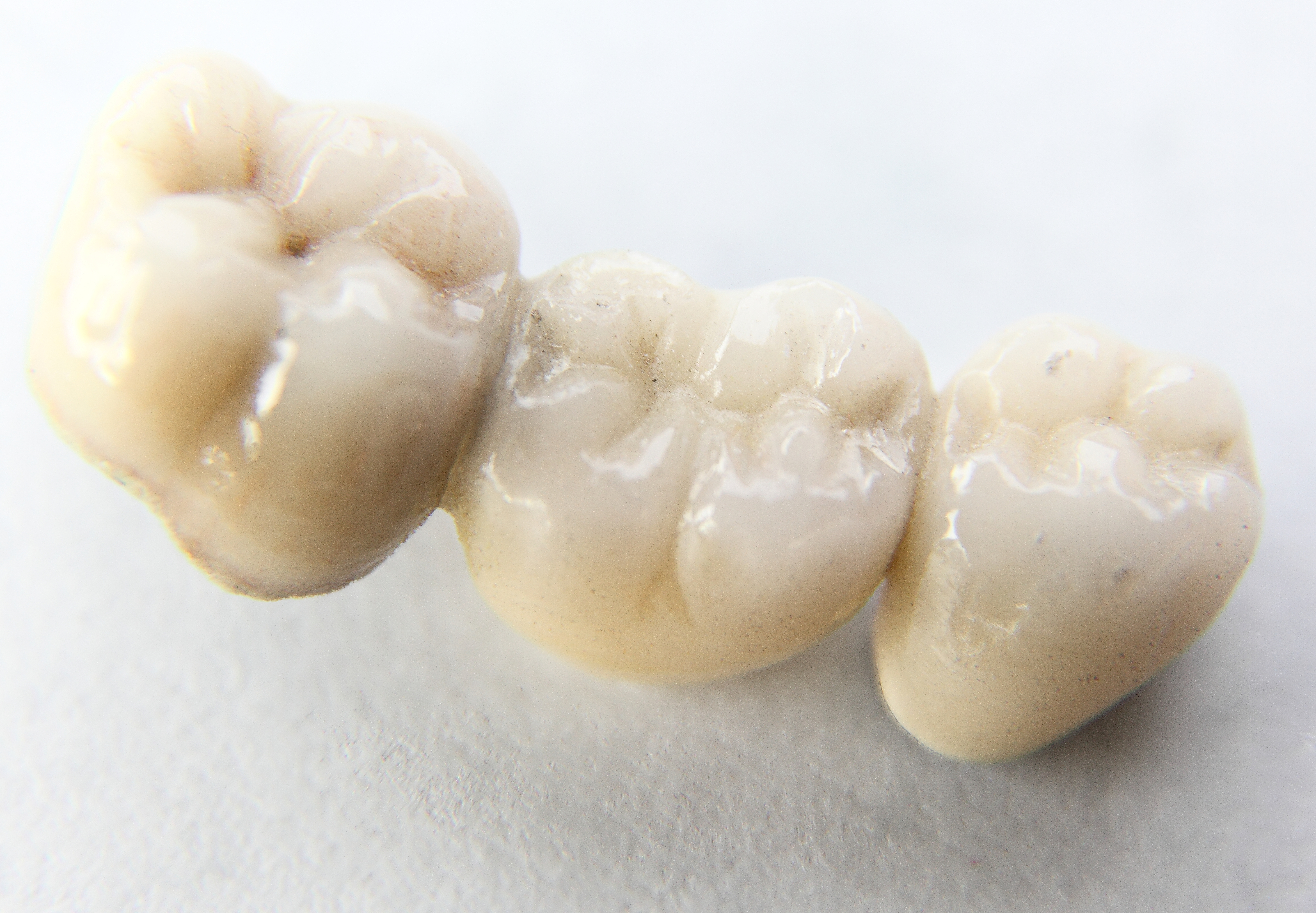 Dental bridge; Focus stacking with freeware CombineZP (option:Soft stacking), from 7 identical pictures with different focus point, the result is a very sharp picture; This image was created with CombineZP